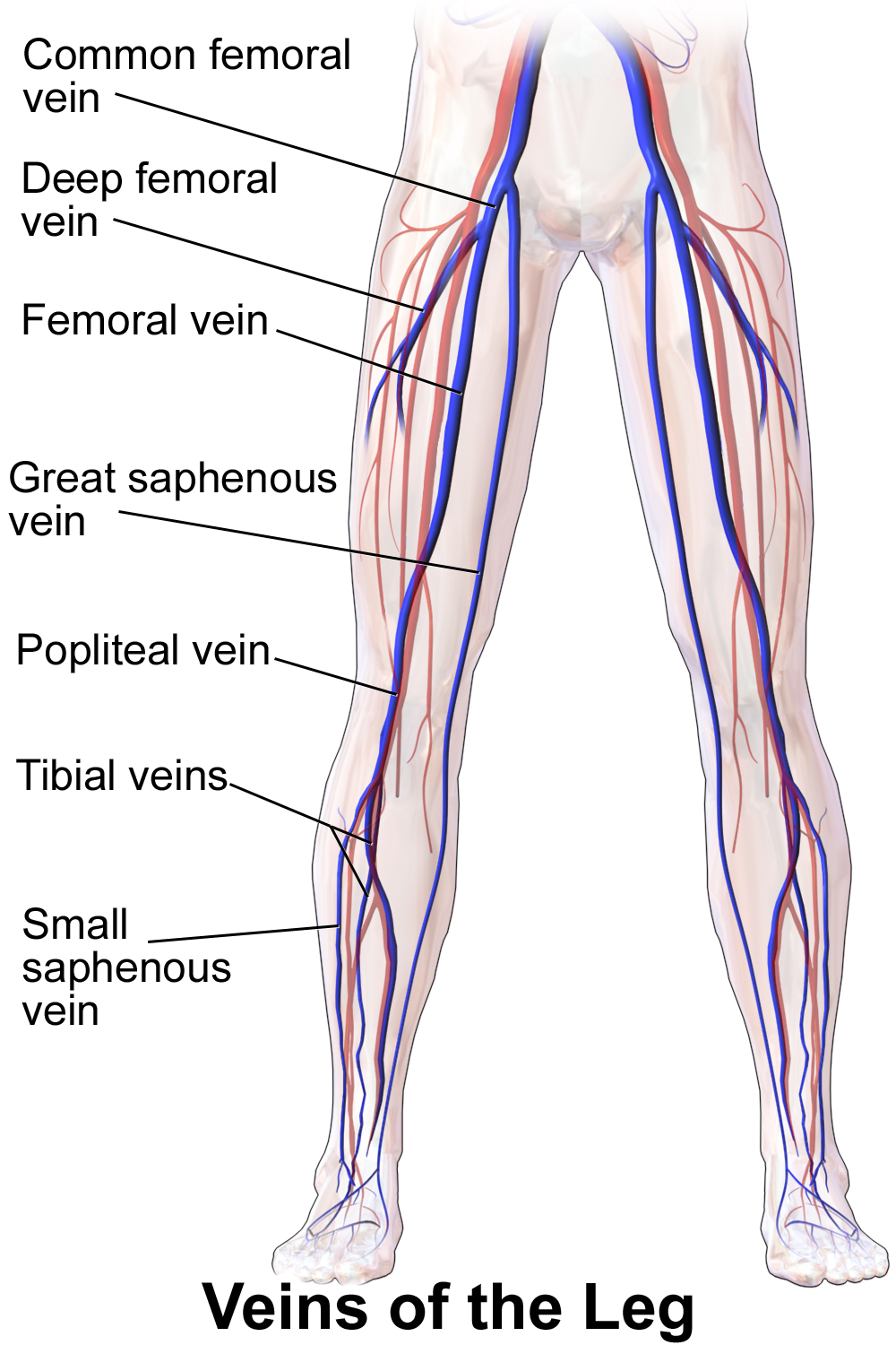 Veins of the Leg. See a related animation of this medical topic.